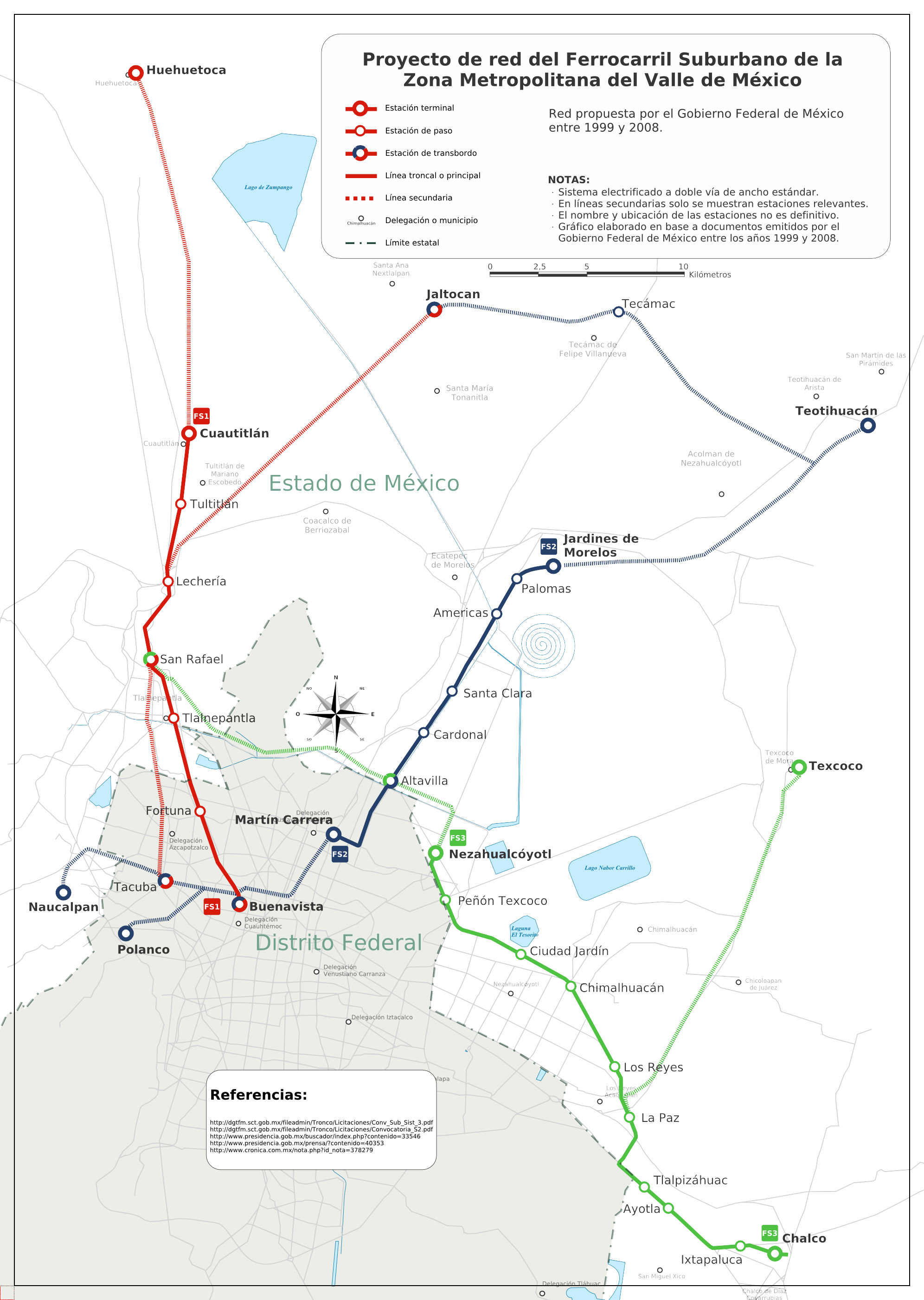 Project of Suburban Railway Network in the Metropolitan Area of Mexico